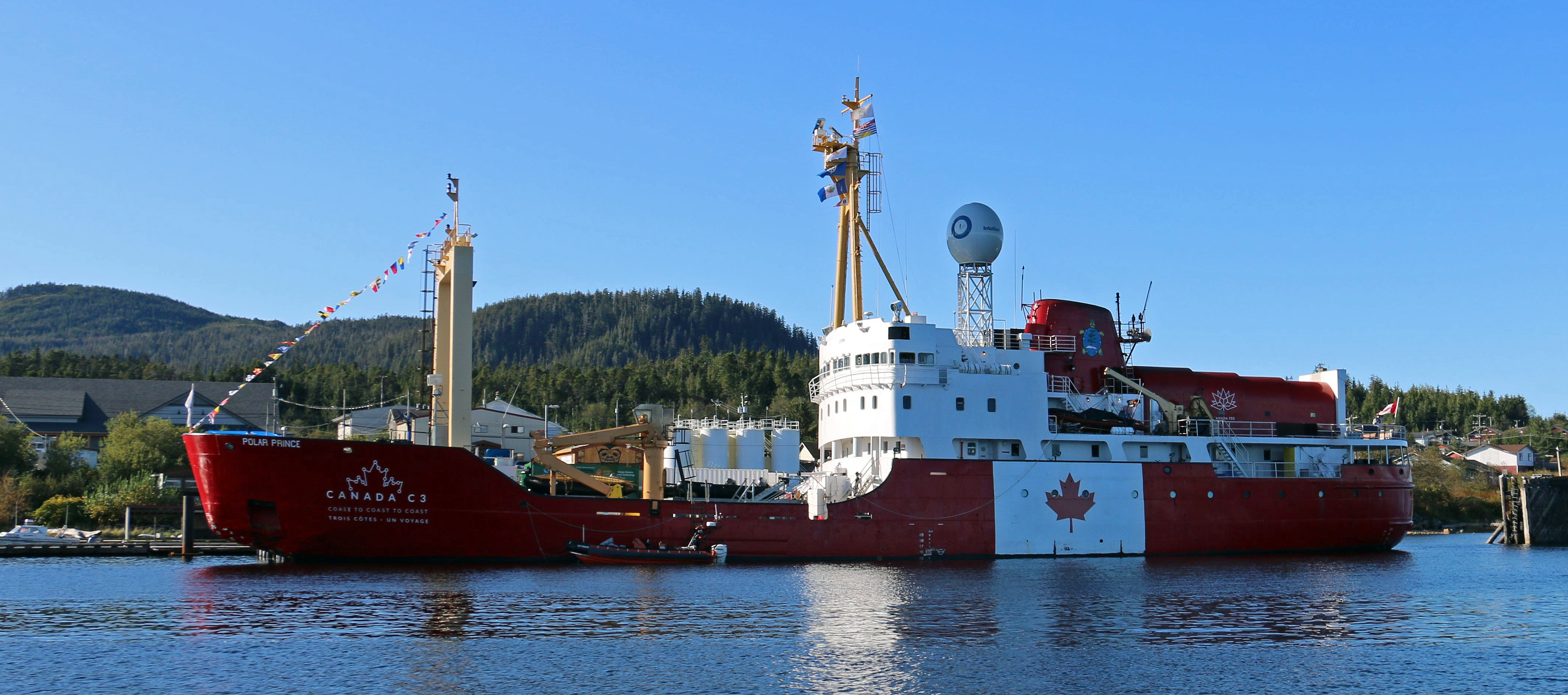 The Canada C3 ship, formerly Canadian Coast Guard Ship Sir Humphrey Gilbert, docked at Bella Bella, British Columbia harbour. The ship is on the final leg of its journey around the three ocean coasts of Canada for the Canada 150 celebrations in 2017.